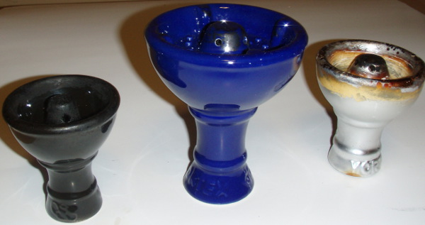 Vortex Bowls by Sahara Smoke